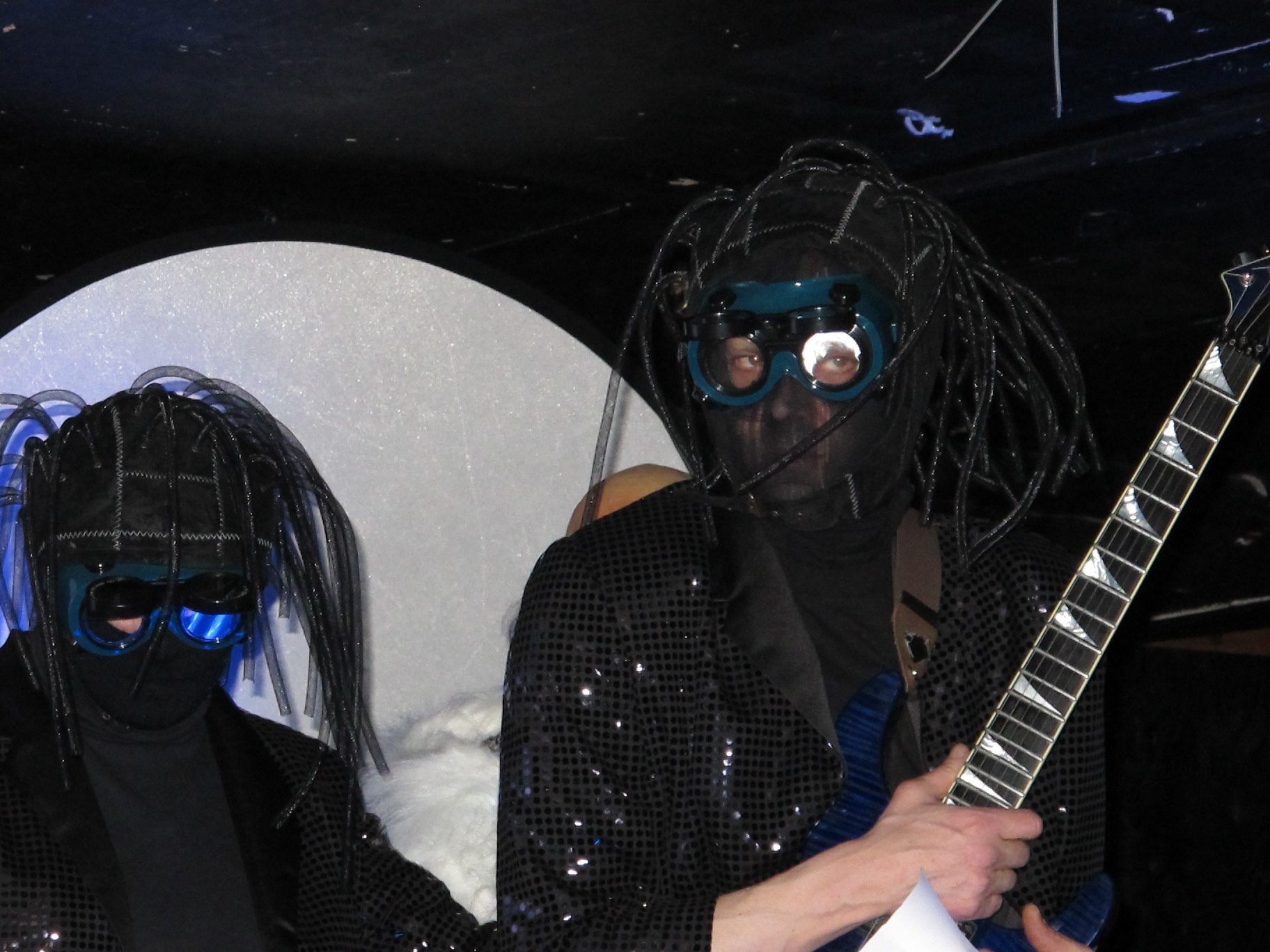 The Residents @ Middle East Downstairs